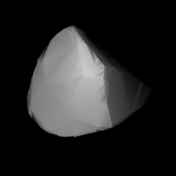 3D convex shape model of 3962 Valyaev, computed using light curve inversion techniques. J. Hanuš, J. Ďurech, M. Brož, B. D. Warner (June 2011). "A study of asteroid pole-latitude distribution based on an extended set of shape models derived by the lightcurve inversion method". Astronomy and Astrophysics 530: A134. ISSN 0004-6361. arXiv